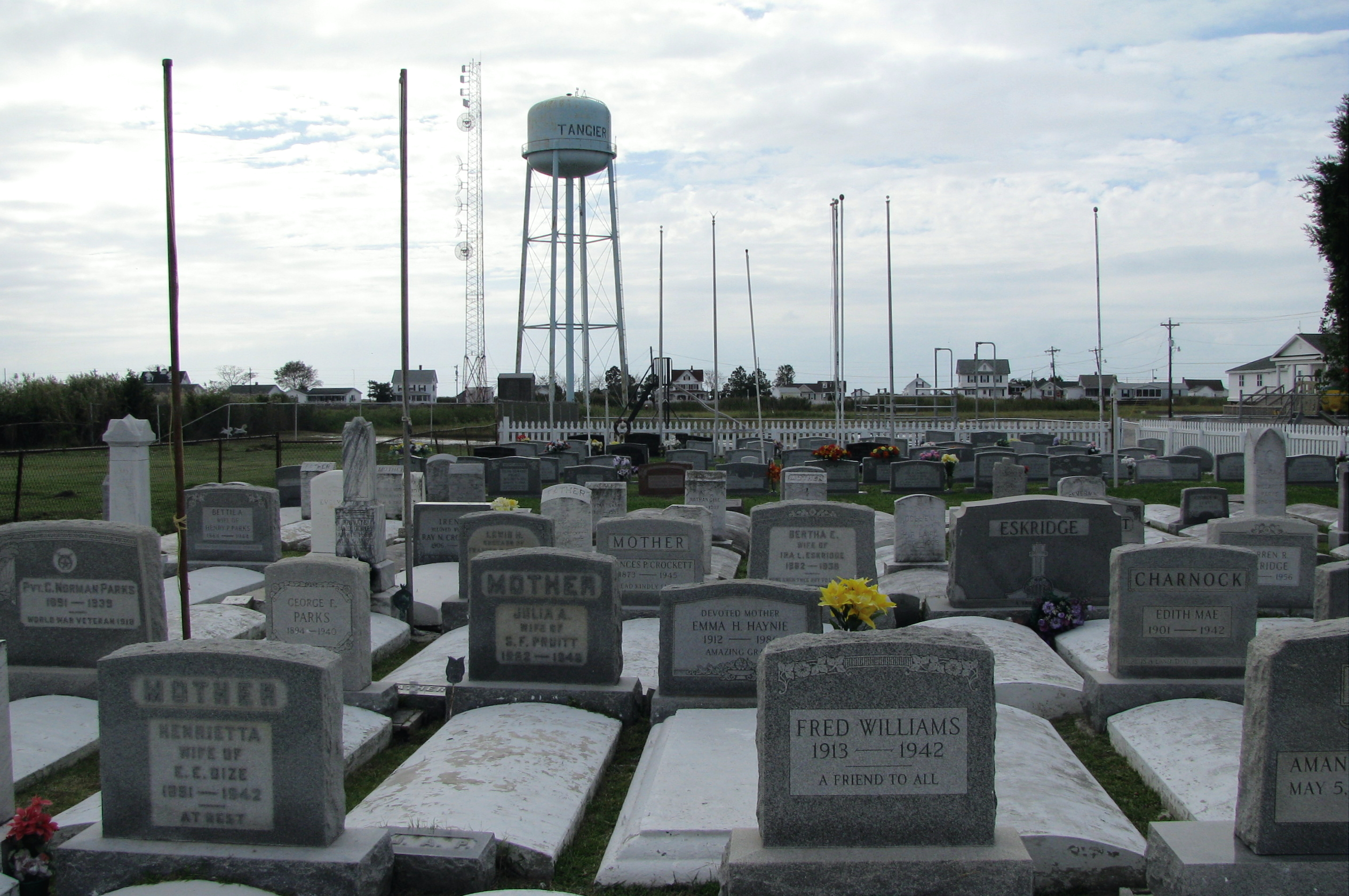 One of Tangier's newer cemeteries. The flagpoles mark the graves of veterans. The playground is just beyond the picket fence and the school is on the far right. The island's airstrip is beyond the water tower, across West Ridge Road.